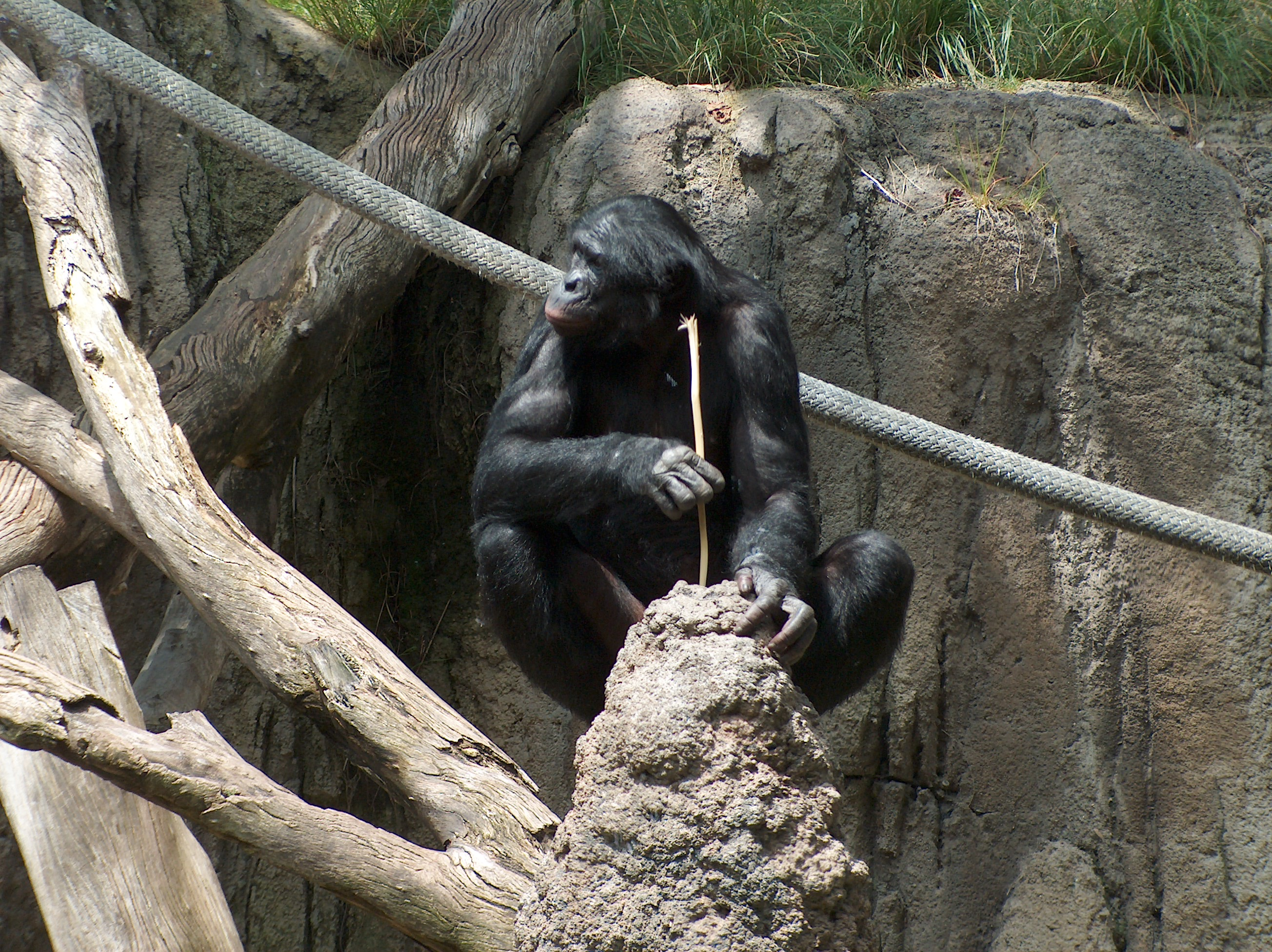 Bonobo at the San Diego Zoo "fishing" for termites. The photo was taken through glass, so if anyone wants to photoshop it to remove artifacts of the glass, please be my guest. Photo taken by User:Mike R on 8 August, 2005.